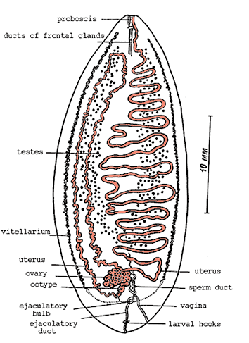 A drawing of adult Amphilina foliacea from sturgeon. Note the location of testes between uterine coils, and well separated vaginal and male pores at posterior end of body.